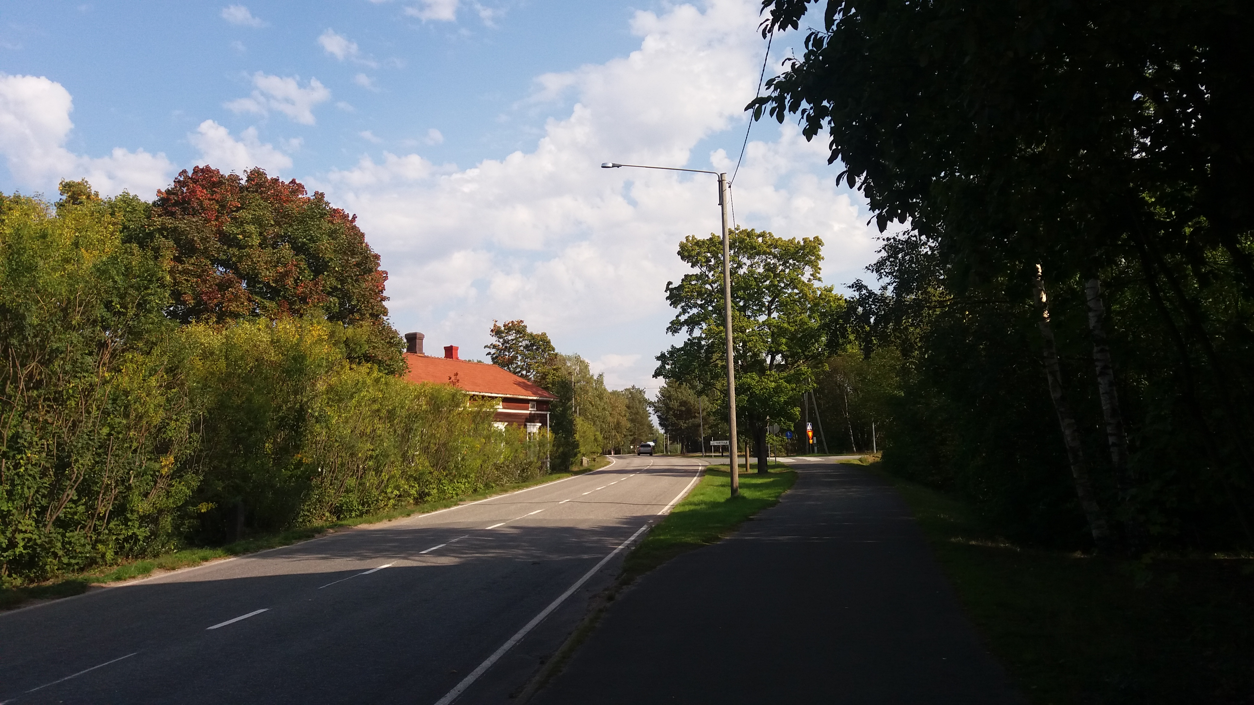 Lammaistenlahti cultural landscape, Harjavalta, Finland.